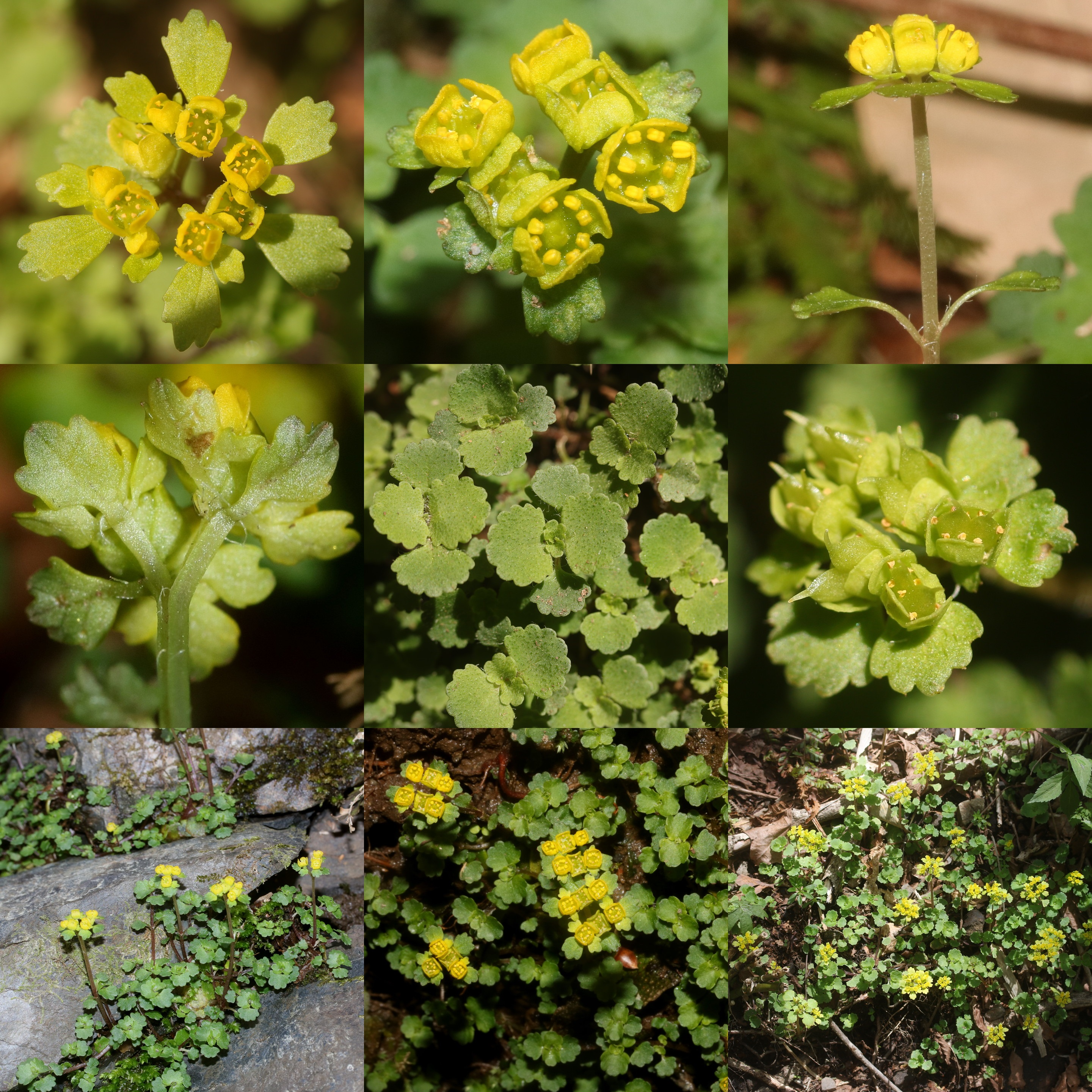 Montage of Chrysosplenium pilosum var. sphaerospermum